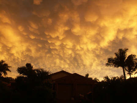 SuPhoto-20050809dMetVuw.jpg - photo taken and uploaded by Paul Moss, Photographer, Artist, Paul Moss Photographer Artist NZ